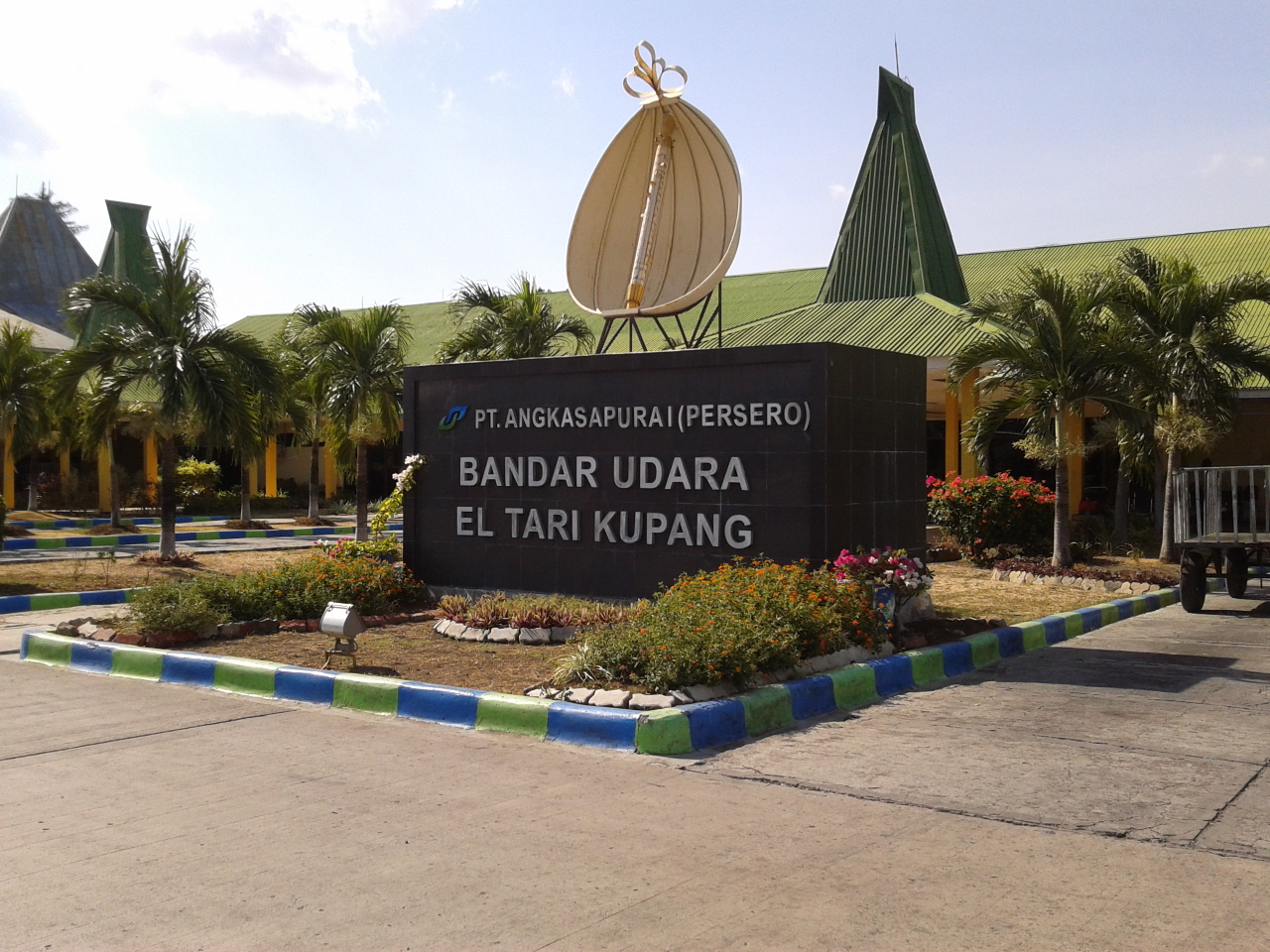 El Tari AirportBahasa Indonesia: Bandar Udara El Tari